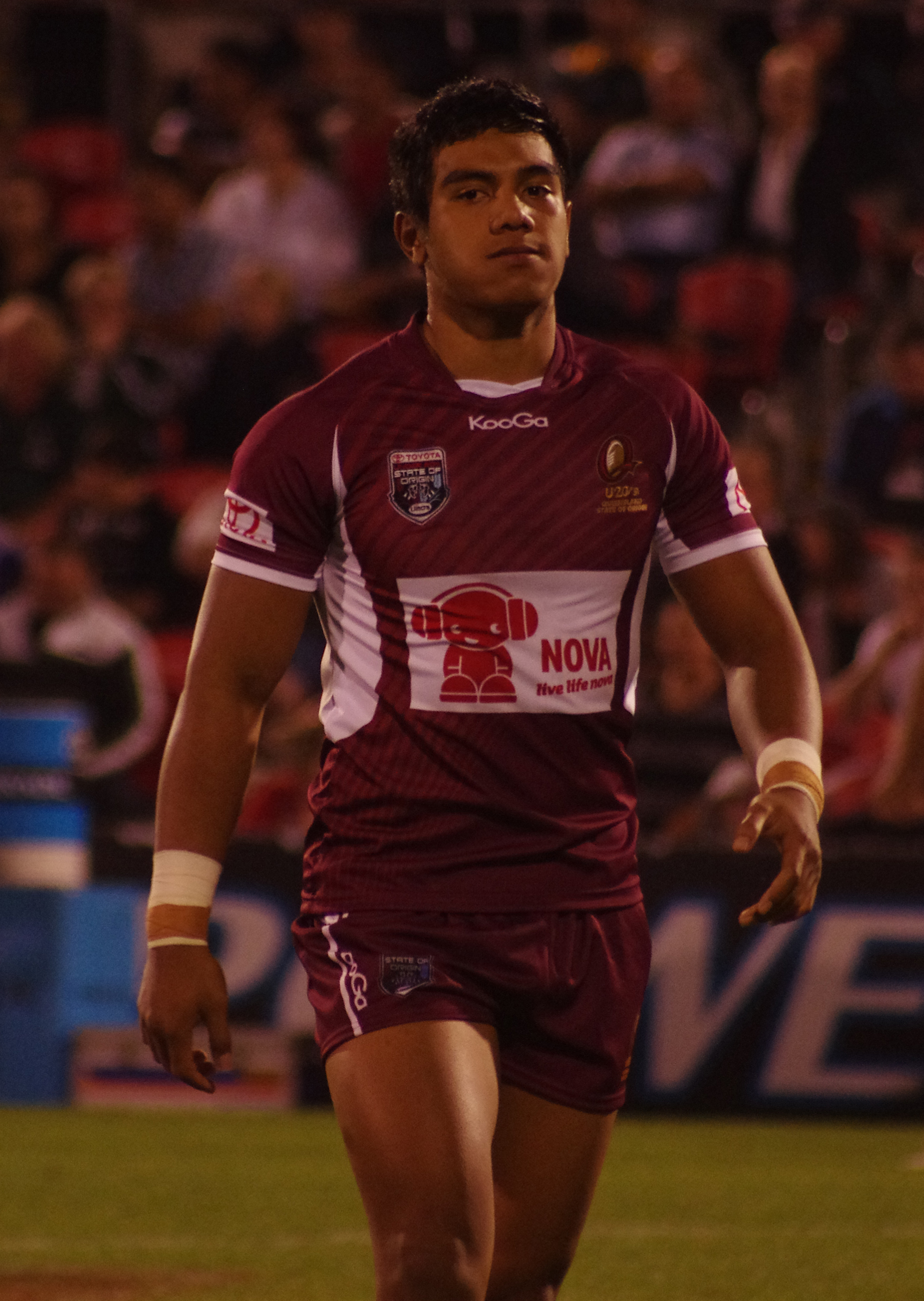 Hymel hunt playing for Queensland in the State of Origin